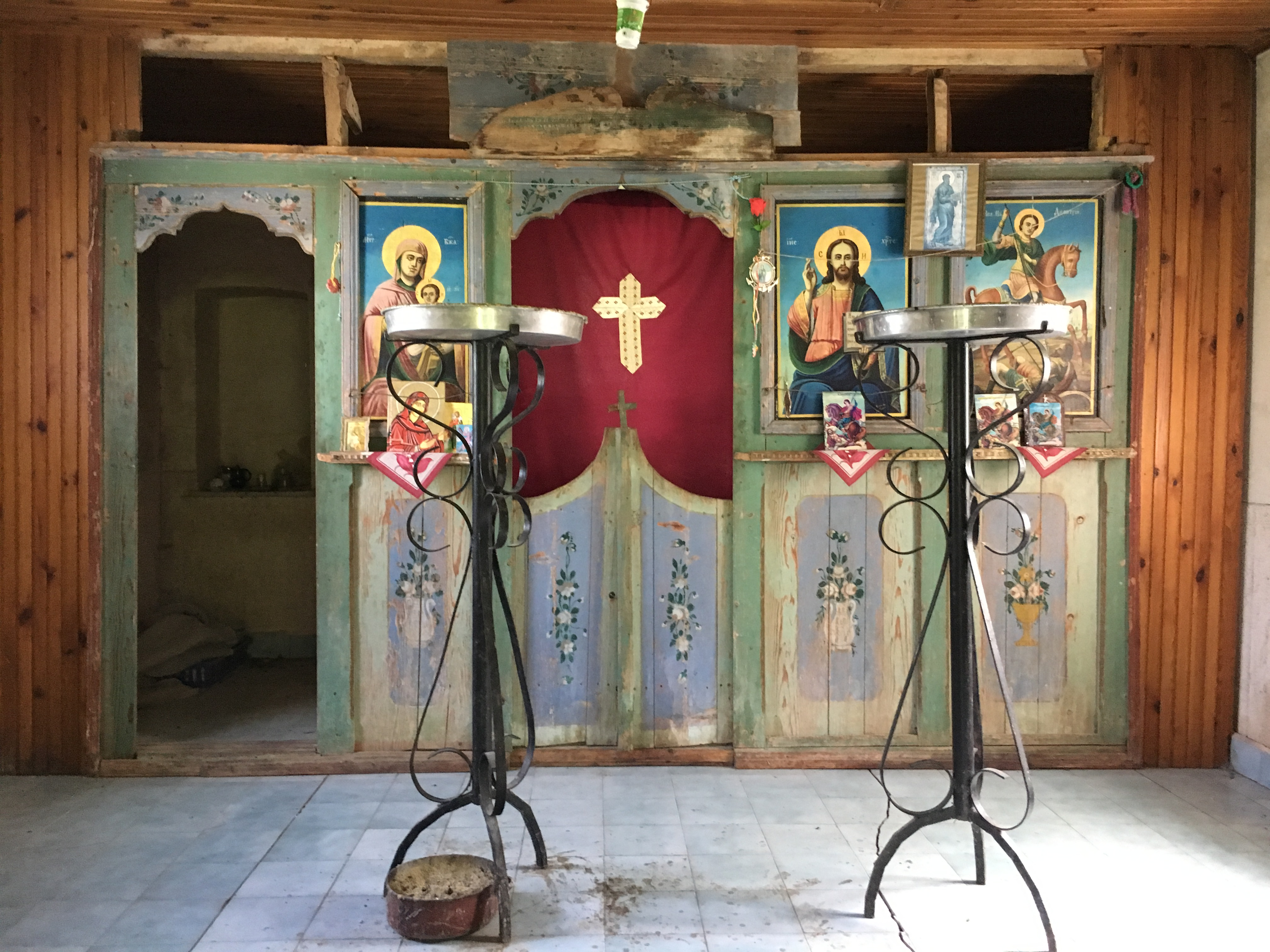 The interior of St. Demetrious Church in the village of Vevčani